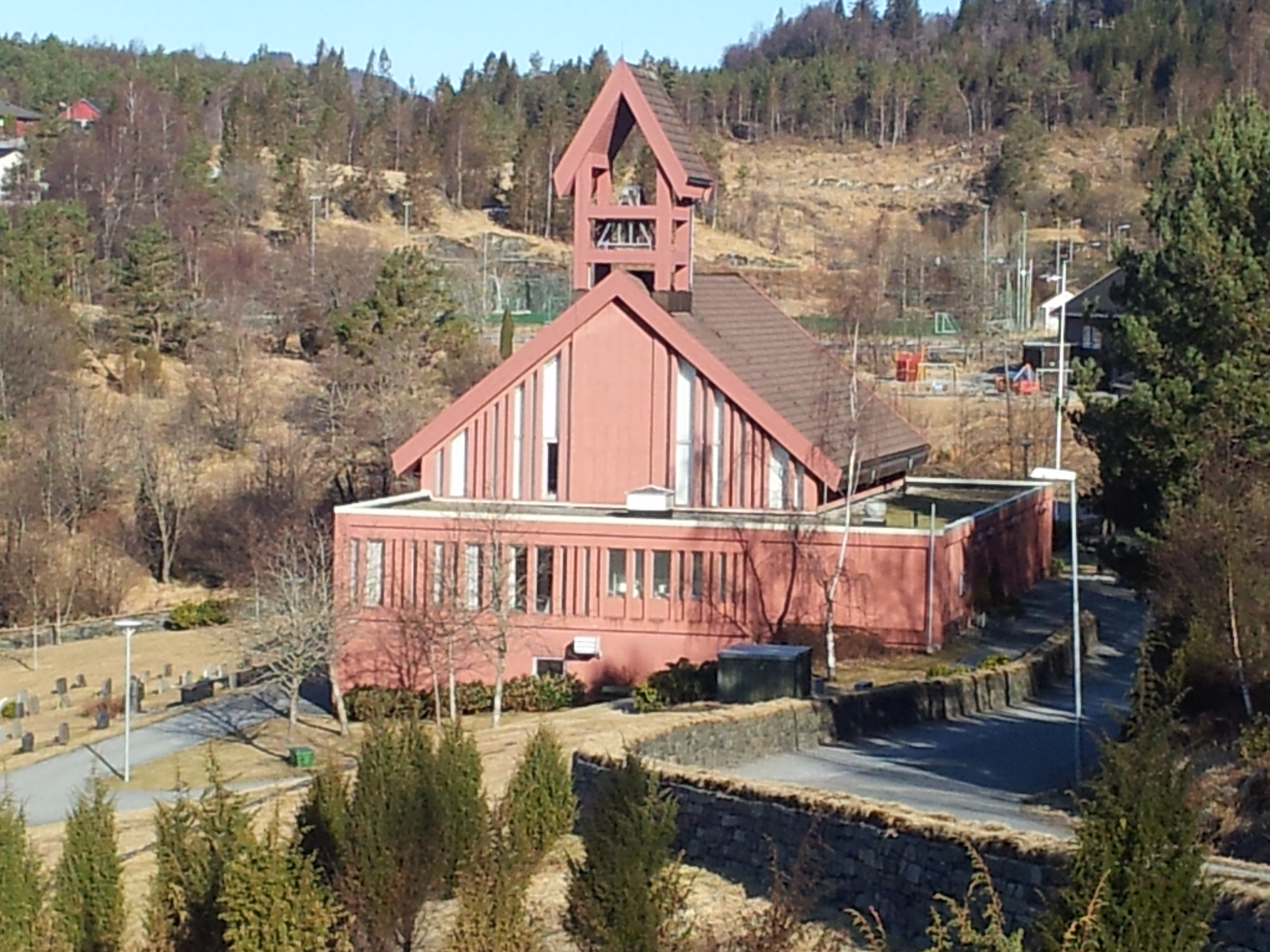 Ostereide church in Lindås, Norway, from 1988. Architect Einar Vaardal Lunde A/S by Bengt Suleng.